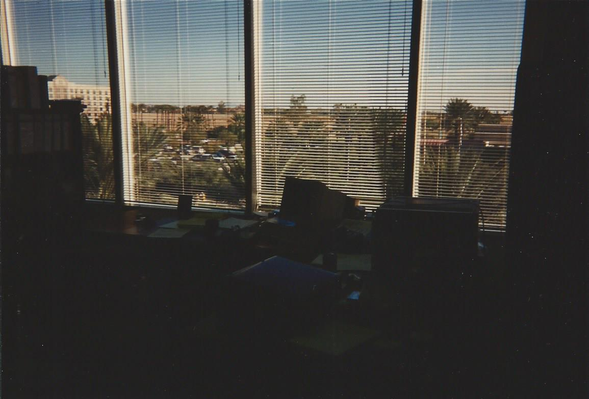 An office within DDC-I, a software development company, on 44th Street in Phoenix, Arizona. The view outside shows palm trees and other indications of an Arizona office park.